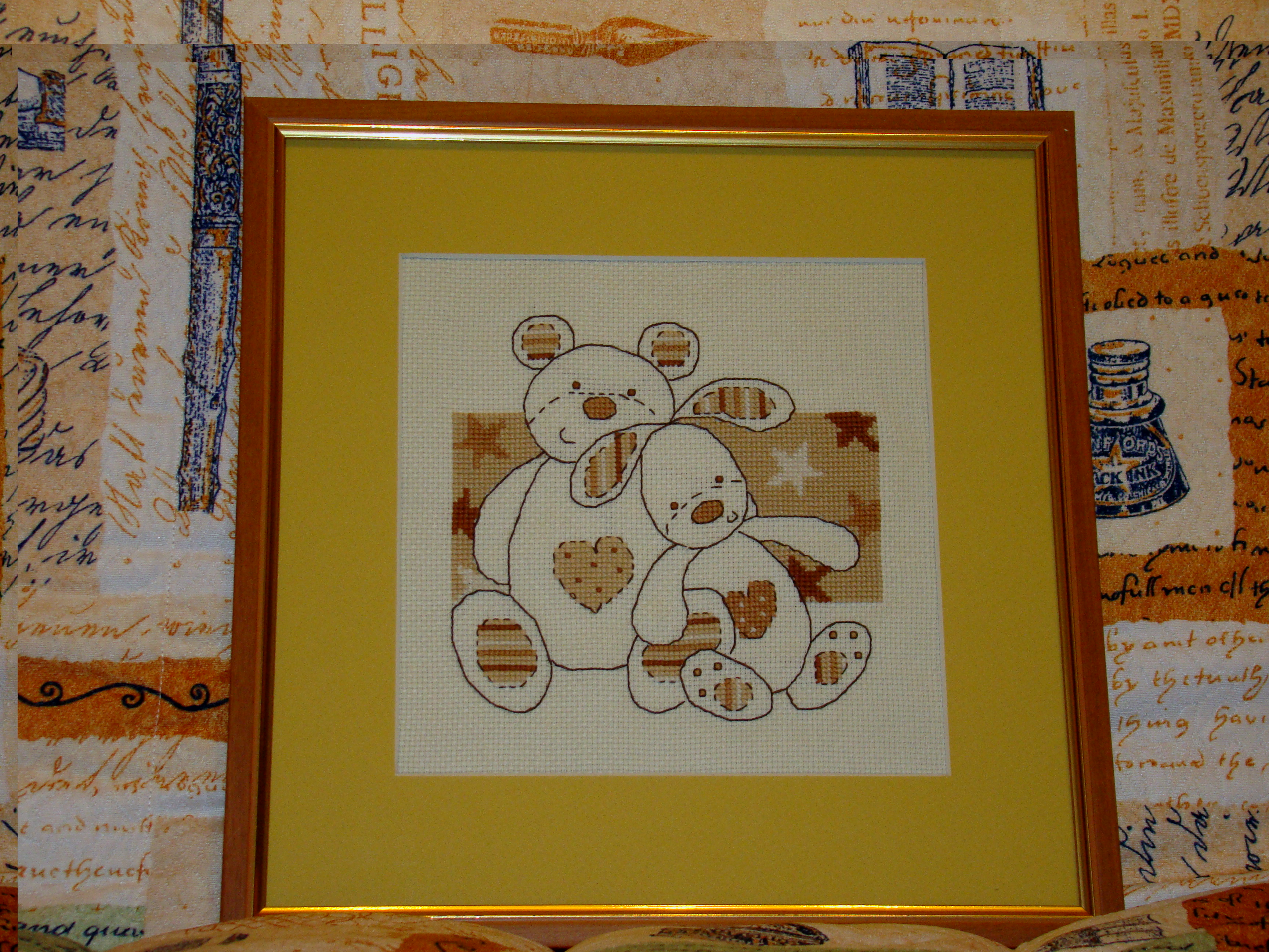 Cross-stitching masterpiece of bears.